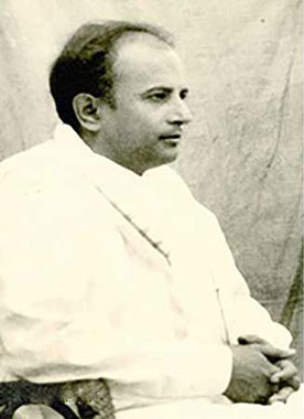 Ajay Bhattacharya (July, 1906 - 24 December, 1943), Lyricist